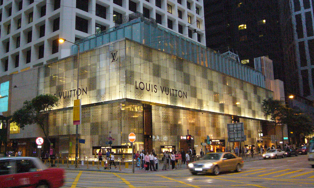 A Louis Vuitton store at The Landmark, Central, Hong Kong.